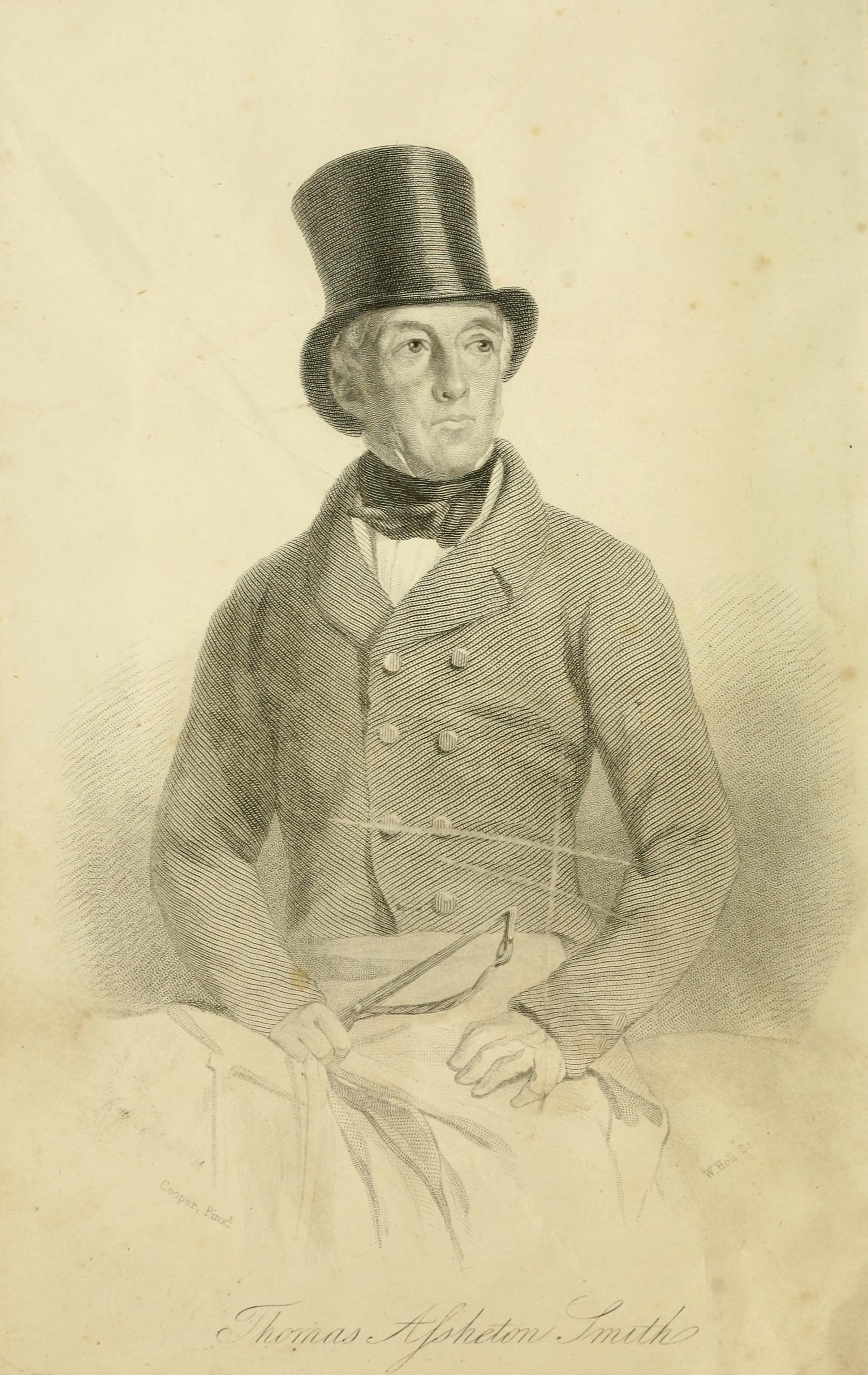 A famous fox-hunter : reminiscences of the late Thomas Assheton Smith, Esq.; or, The pursuits of an English country gentleman / by John E. Eardley-Wilmot.